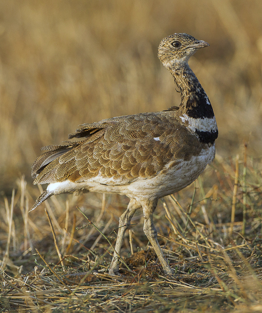 Little Bustard Tetrax tetrax, Castuera, Estremadura, Spain